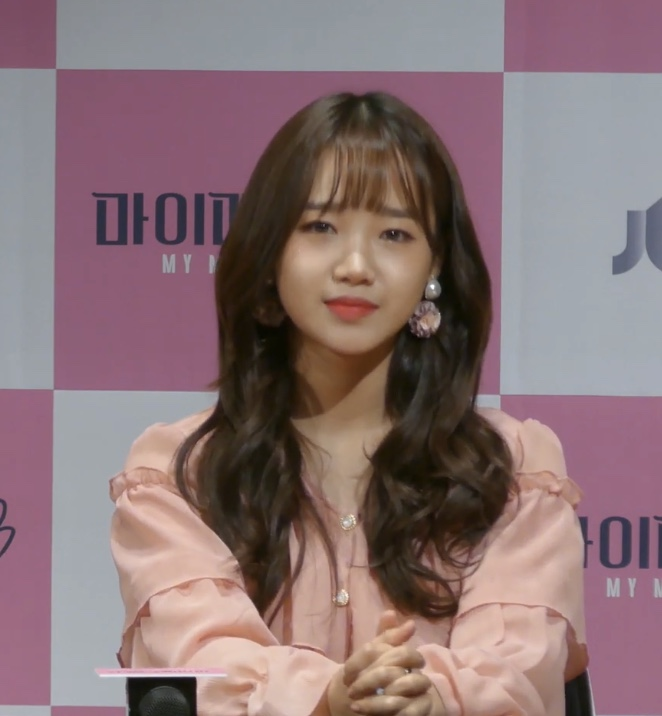 26일 오후 서울시 마포구 상암동 JTBC 사옥에서 JTBC4 신규 예능프로그램 ‘마이 매드 뷰티3’ 제작발표회가 열렸다.